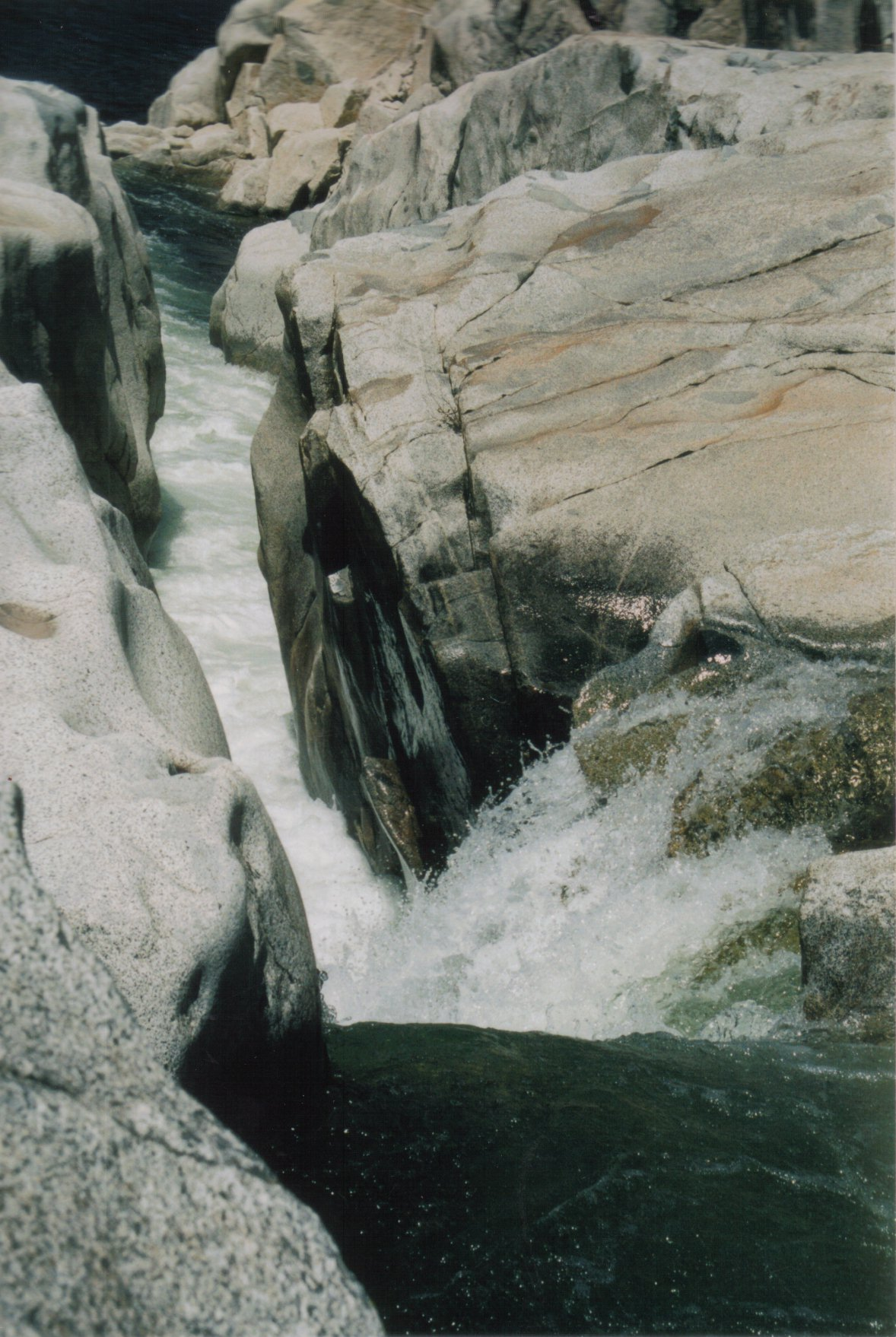 Rubicon River flowing through cataract to Hell Hole Reservoir